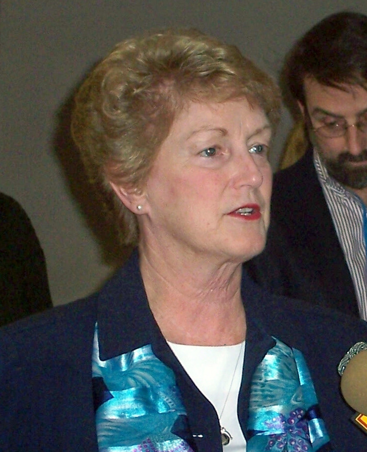 Hartford, CT, April 19, 2007 -- Governor M. Jodi Rell addresses the media at the Connecticut Preliminary Damage Assessment Kick-off meeting. FEMA/Debra Young